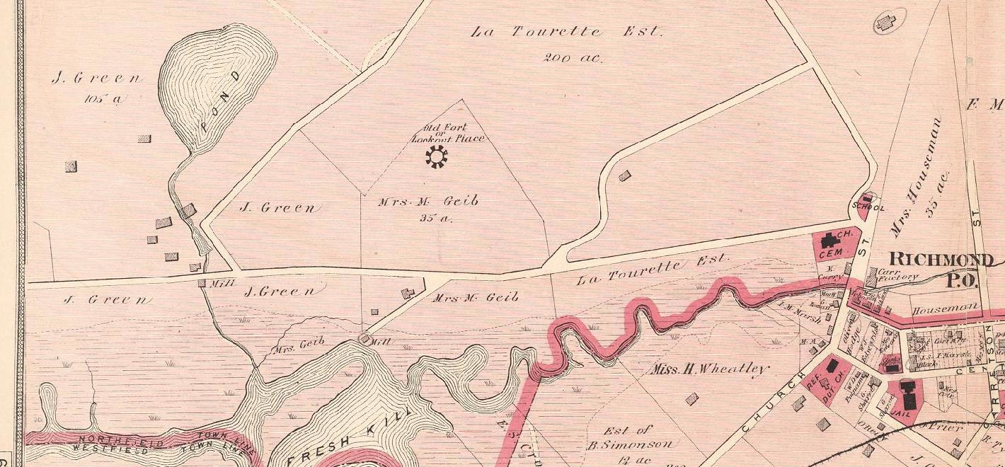 richmondtown map